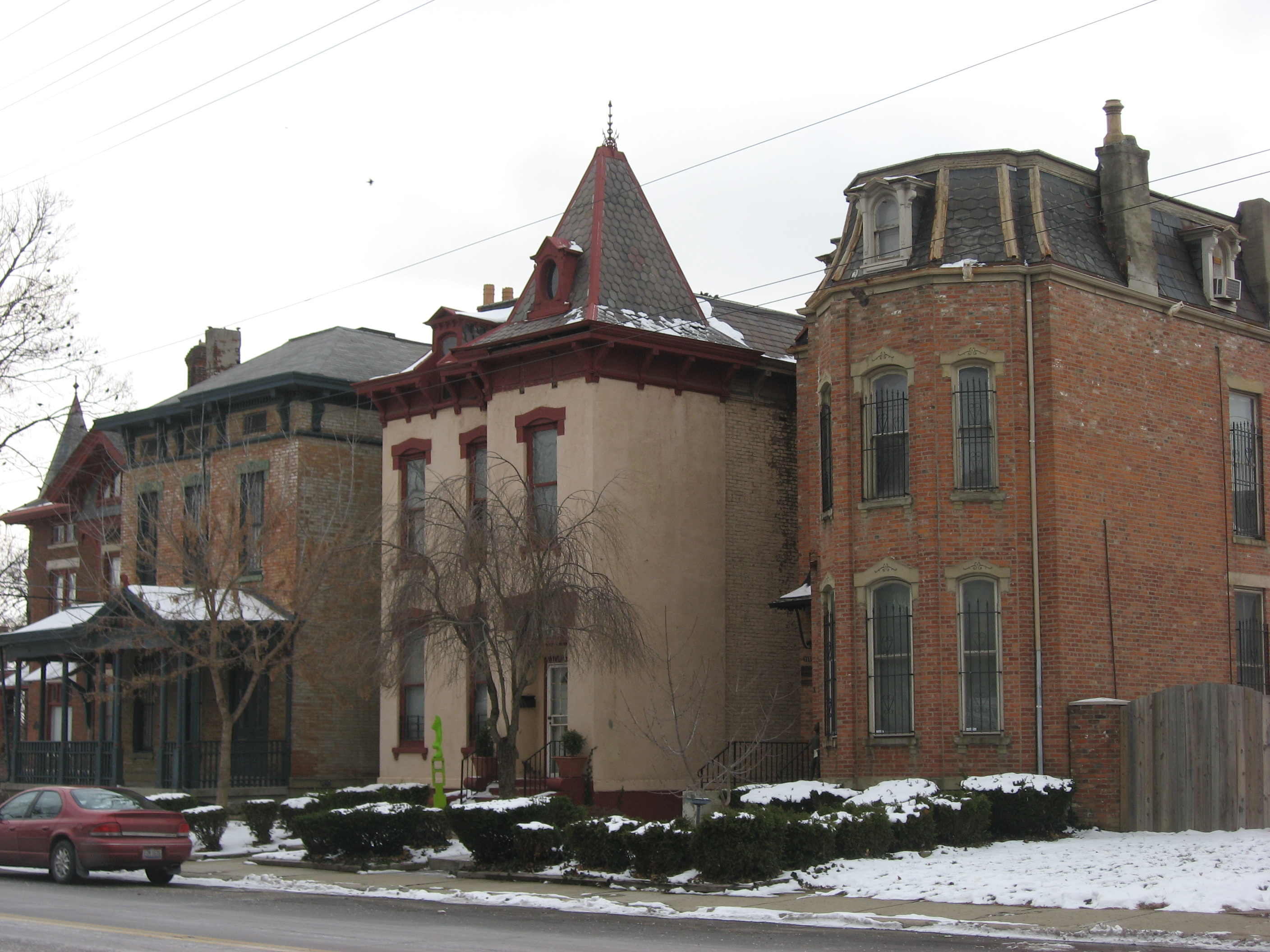 Houses on the western side of the 100 block of N. Hamilton Avenue in Columbus, Ohio, United States. They are part of the Hamilton Park Historic District, a historic district that is listed on the National Register of Historic Places.